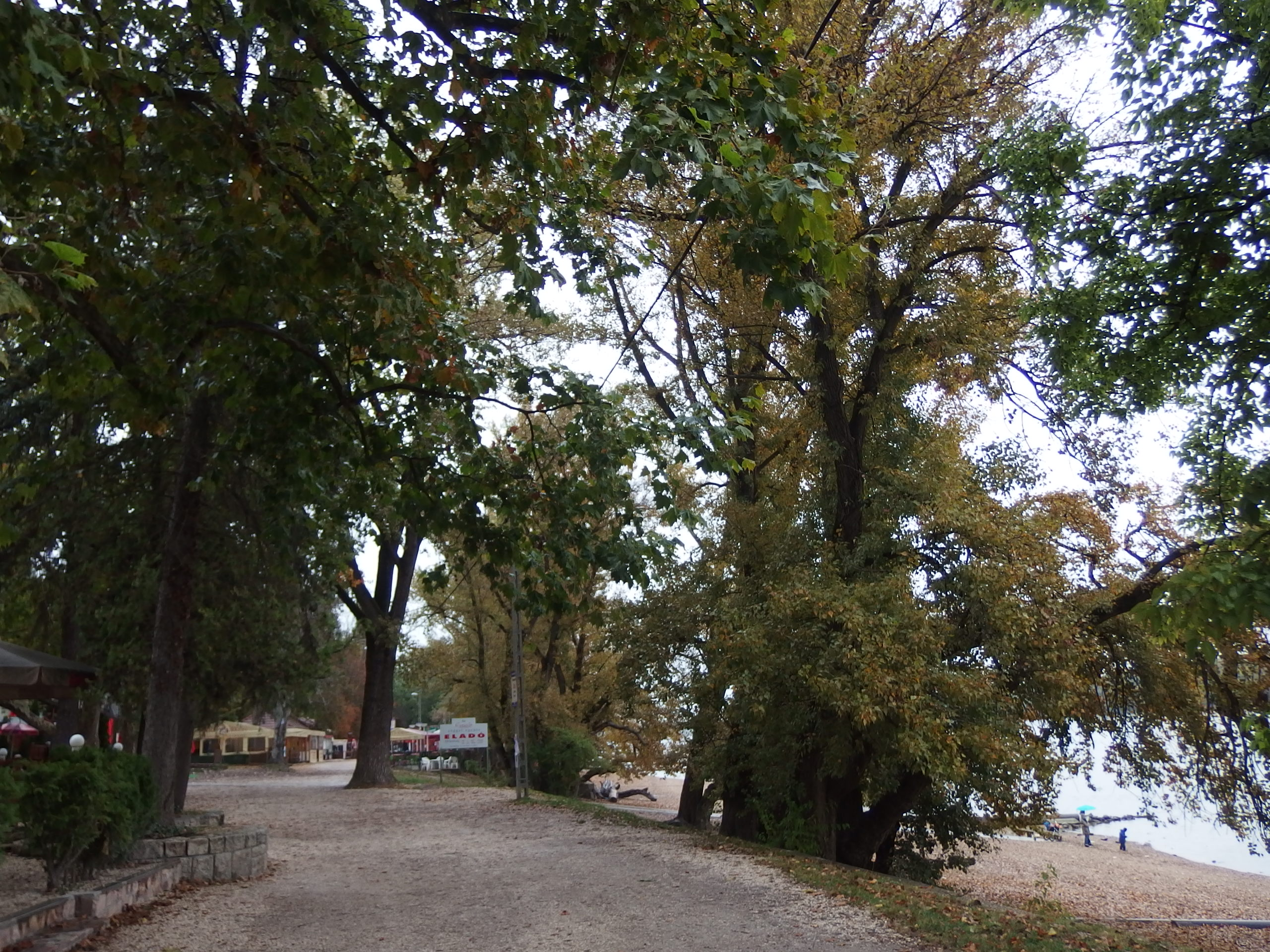 The "Roman Beach" Danube beach, Budapest, Hungary